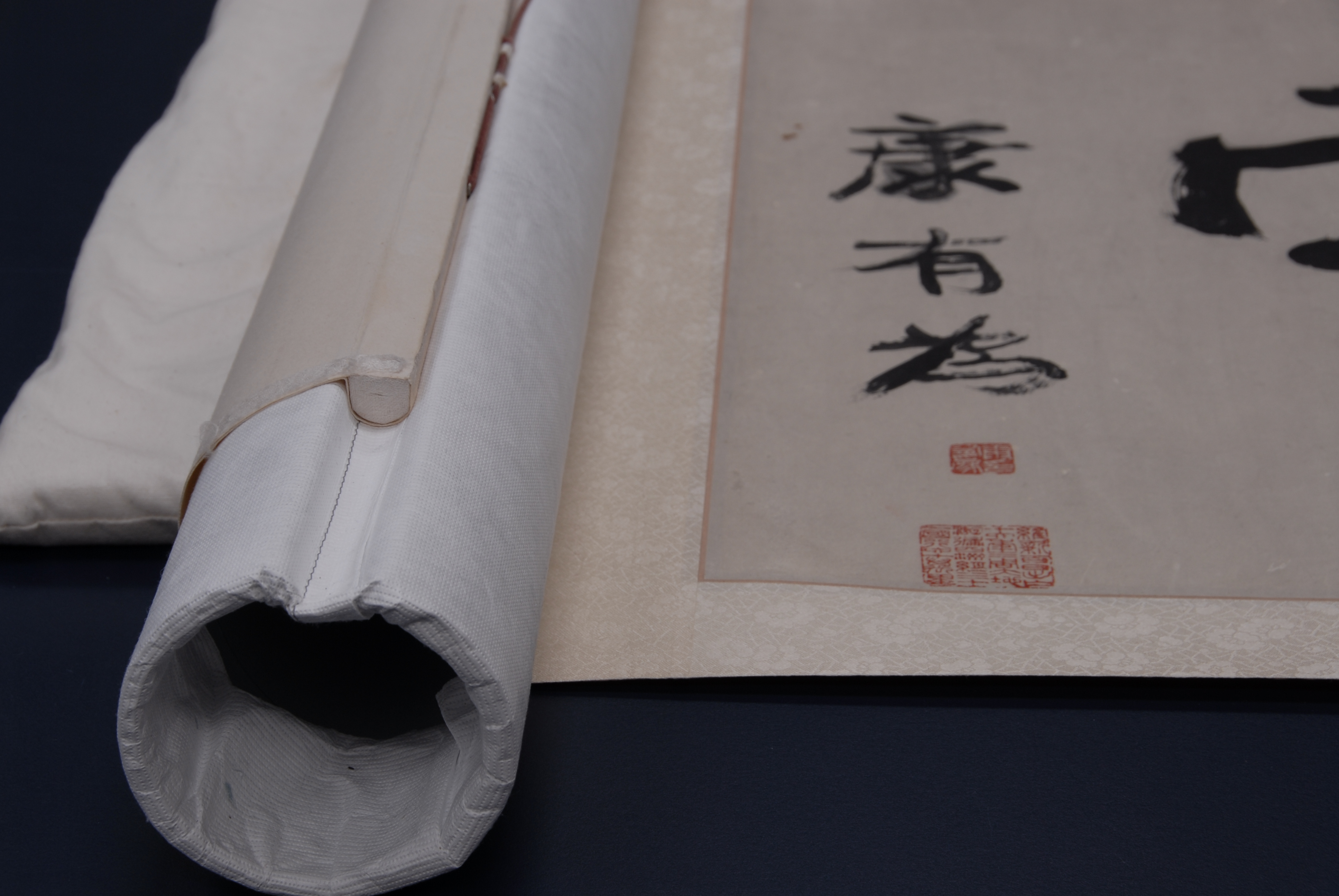 IMA Conservation technician creating a tube to roll a chinese scroll on for storage. "Courtesy of the Indianapolis Museum of Art."